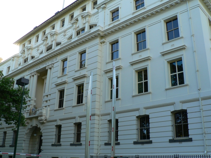 Commonwealth Government Offices. Treasury Place. East Melbourne, Australia.